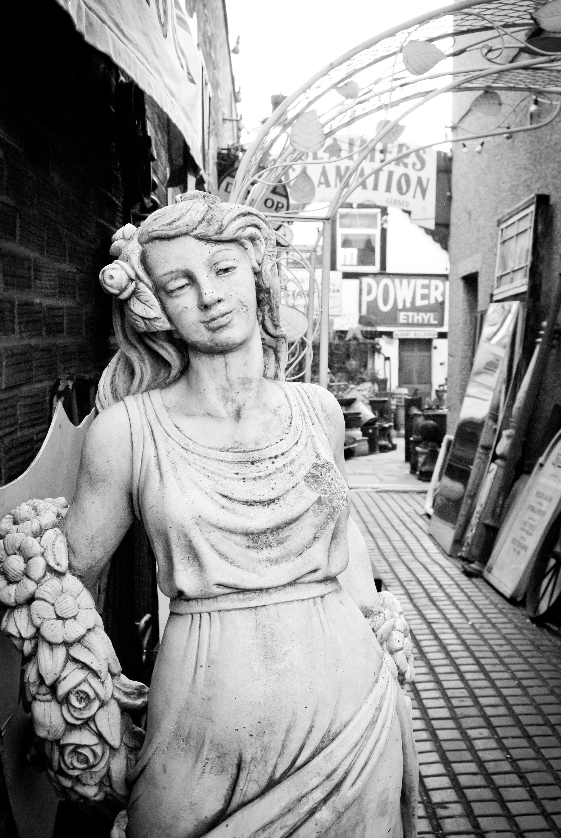 Statue of a Greek female imitating a tragic look, sculpted and placed in a modern setting.